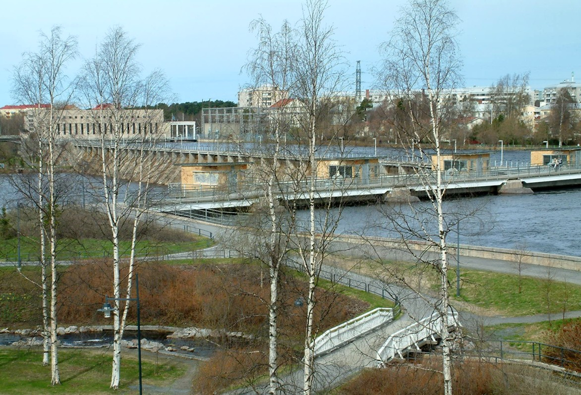 Merikoski hydro power plant, Oulujoki river - Oulu, Finland. Technical data see Oulujoki